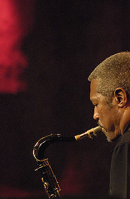 Saxophonist Billy Harper